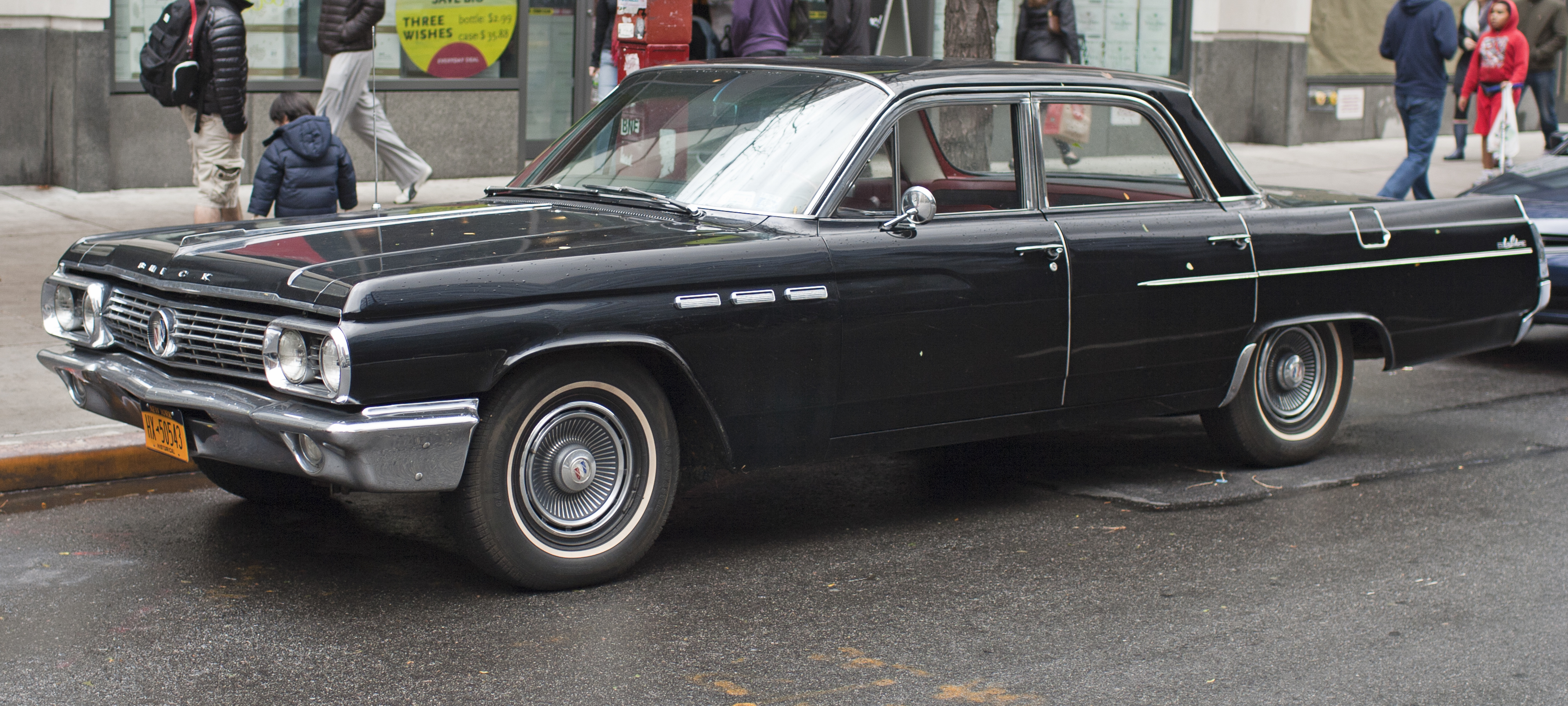 1963 Buick Le Sabre four-door sedan (model code 4469). All 1963 Le Sabres came with a 401 ci V8 (6.6L), in three different outputs.